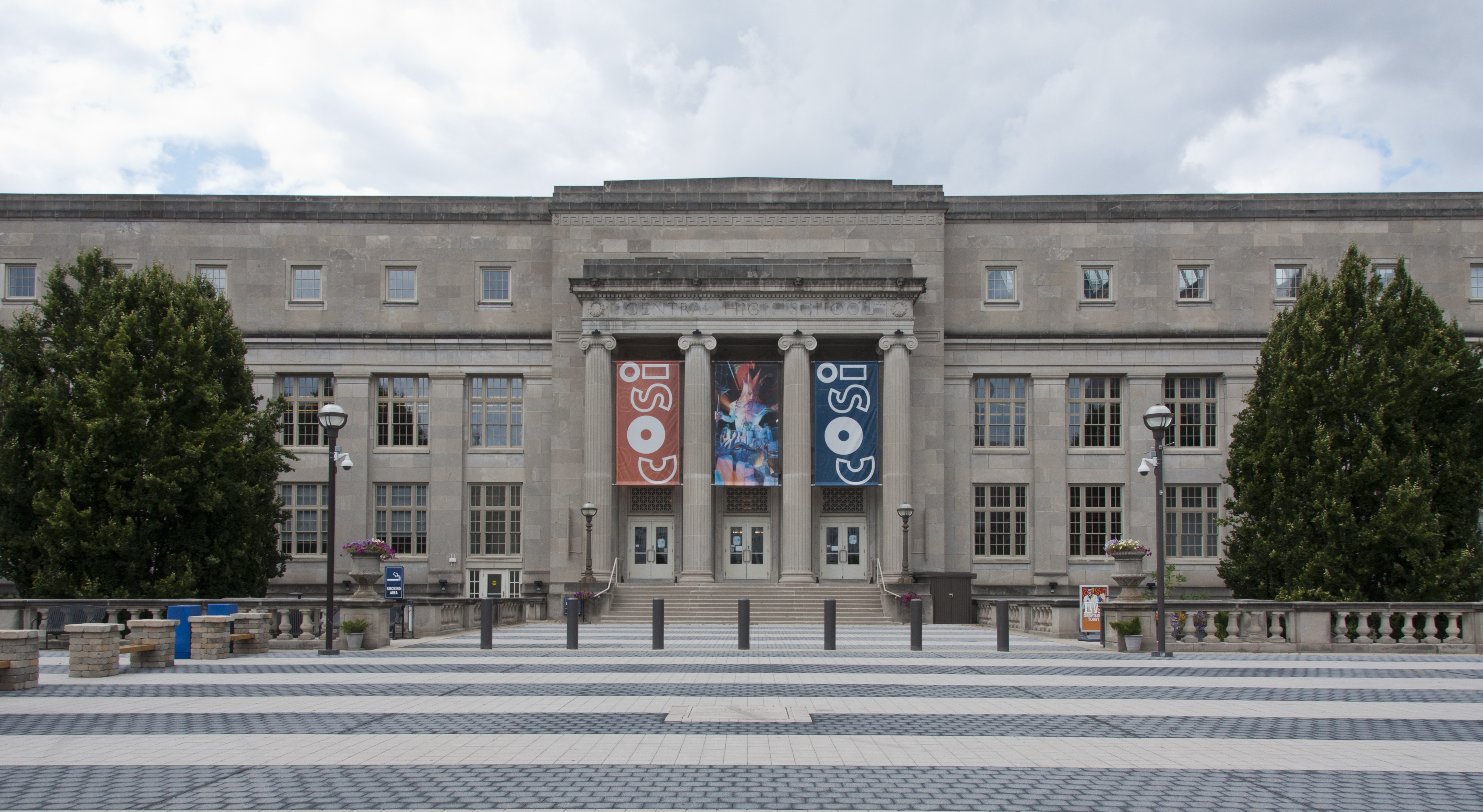 Front of the former Central High School (now part of COSI Columbus), in Columbus, Ohio, United States. Built in 1924, it is listed on the National Register of Historic Places